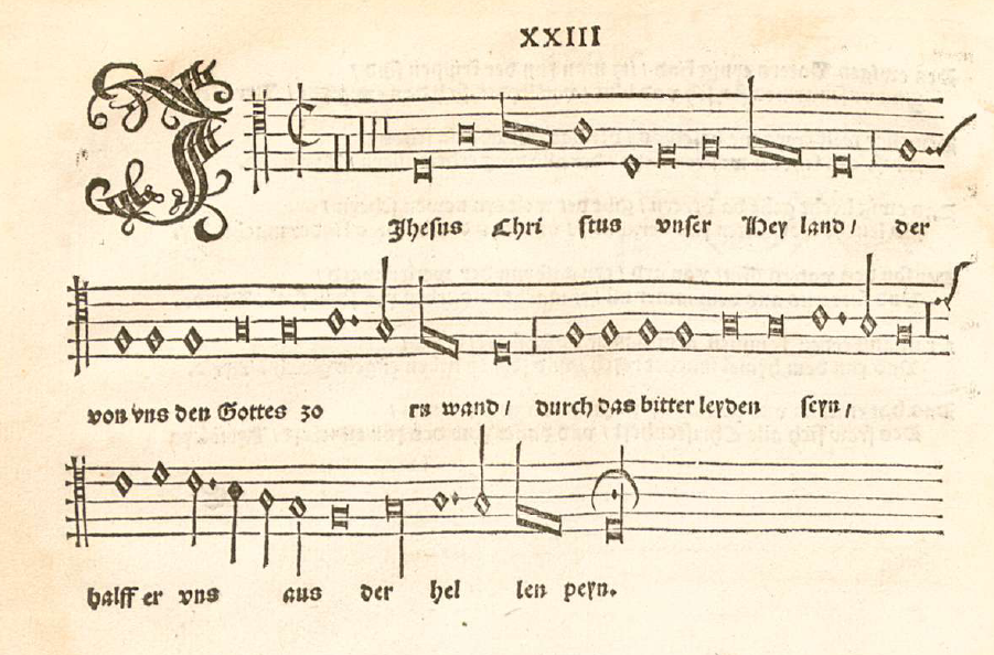 "Jesus Christus, unser Heiland" from the 1524 hymnbook of Martin Luther and Johann Walter